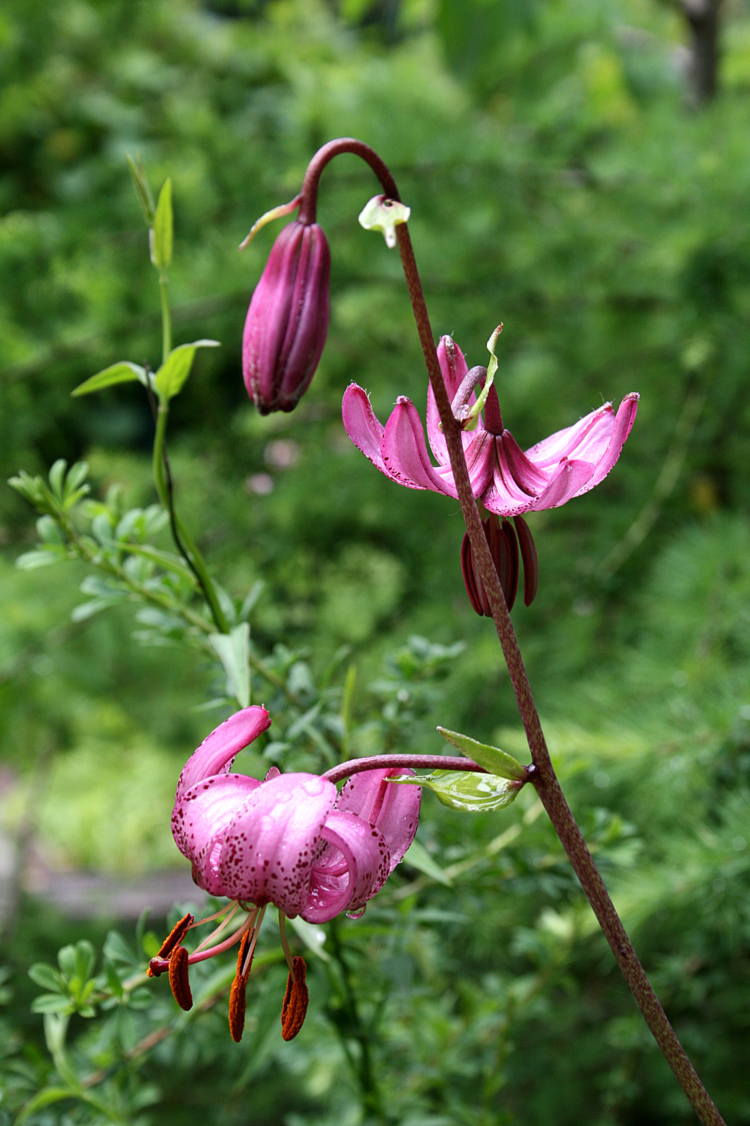 Martagon